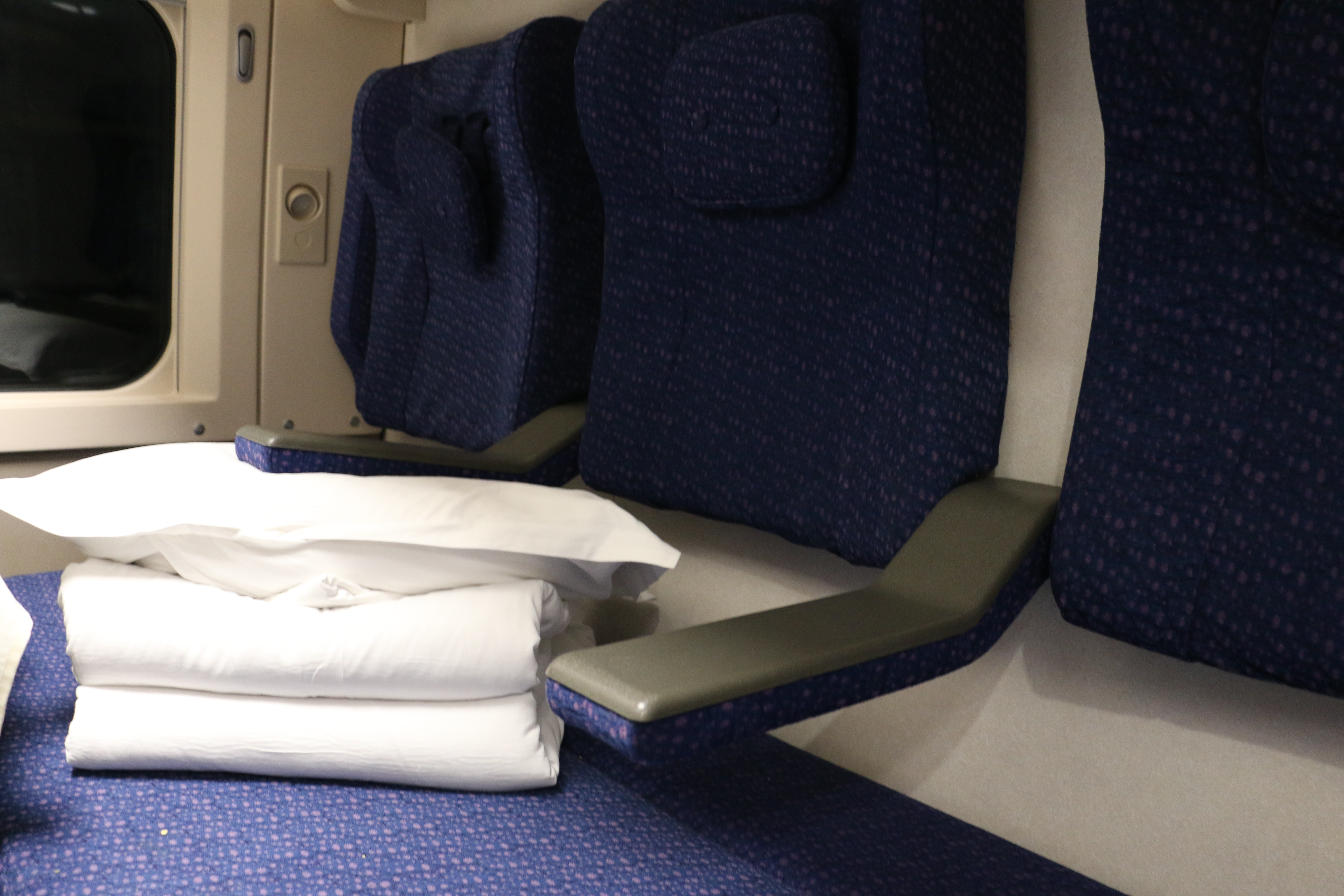 201604 Conbination bench with bed and seats usage of CRH2E-NG